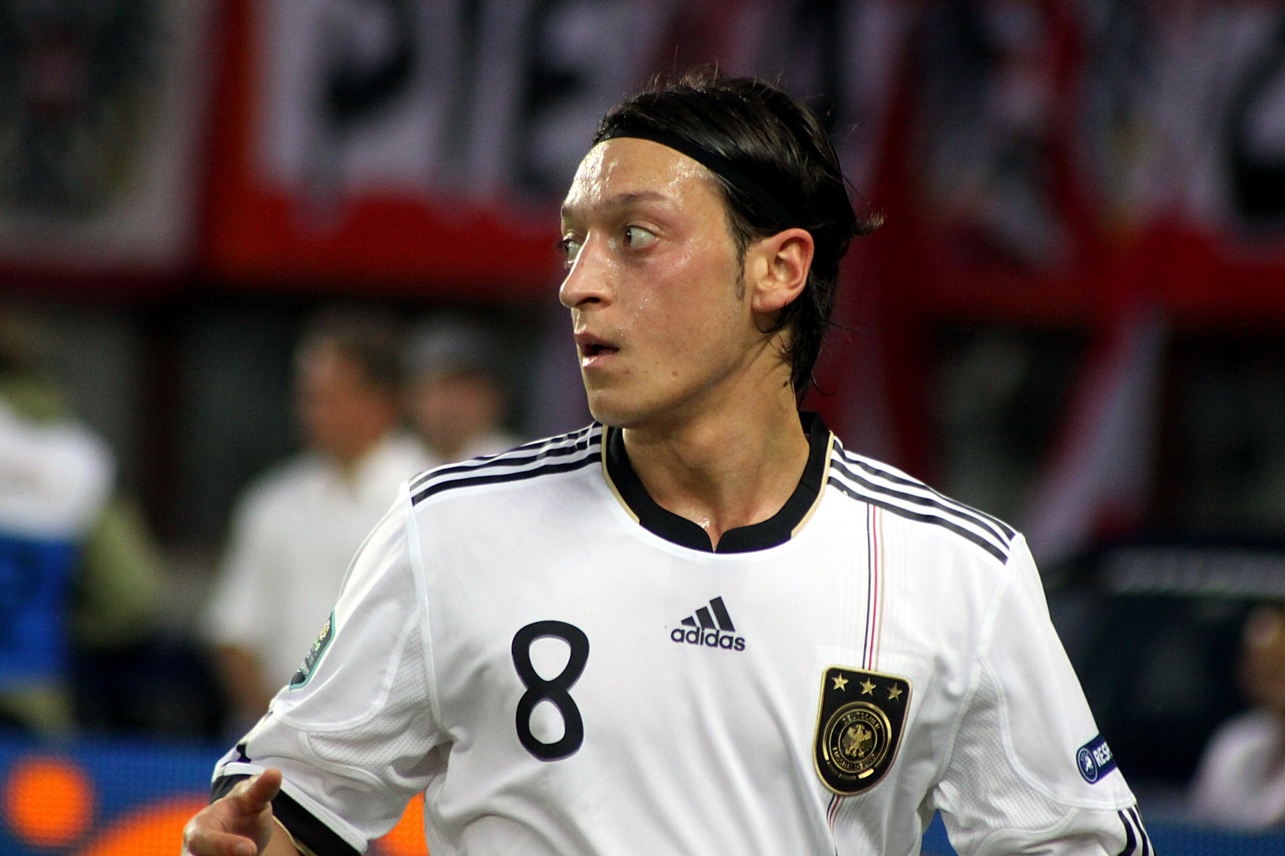 Mesut Özil (Real Madrid), german national football team